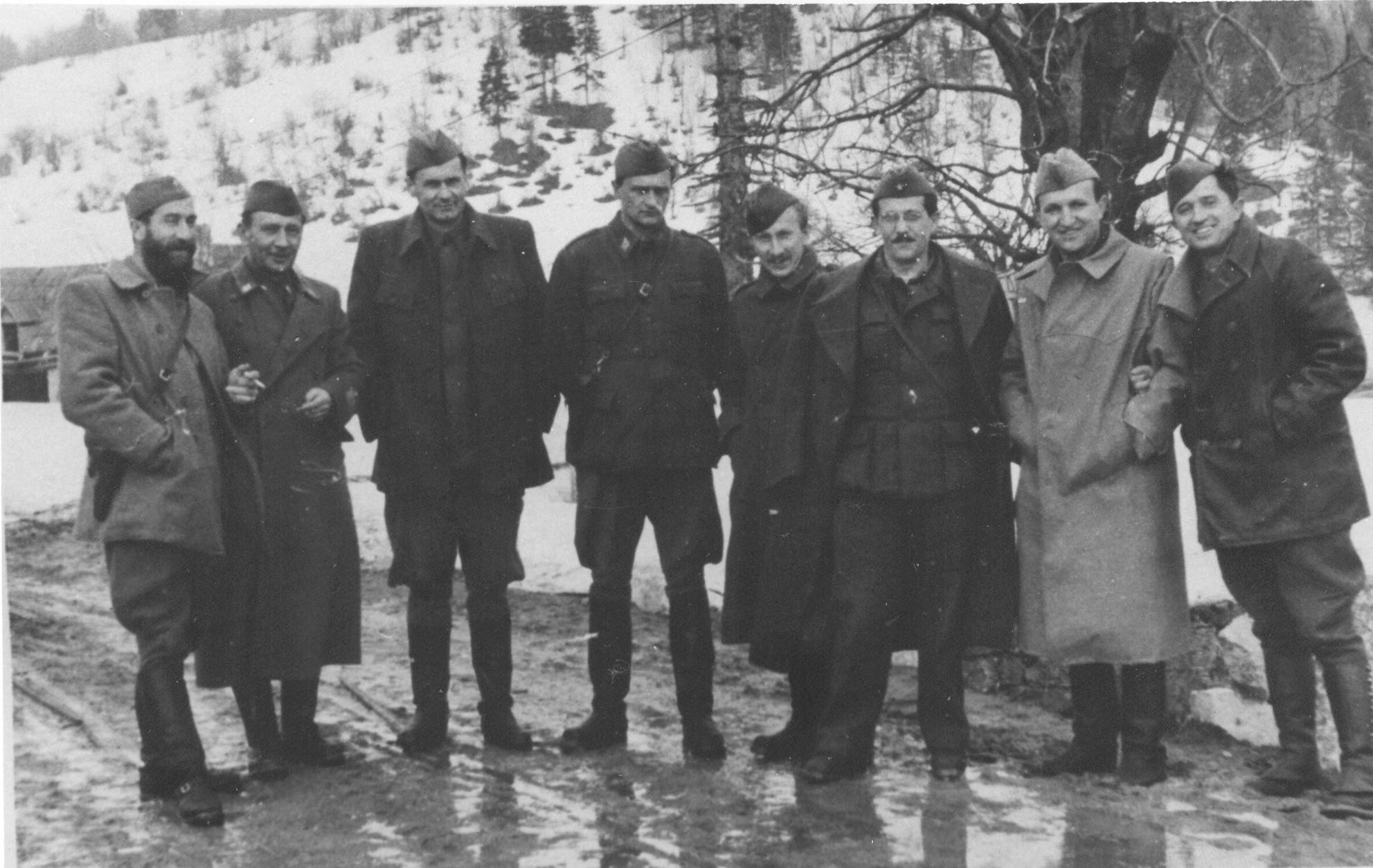 From the left: Vlado Zečević, Sulejman Filipović, Rodoljub Čolaković, Todor Vujasinović, Edvard Kocbek, Edvard Kardelj, Vladimir Bakarić and Raden Golubović.